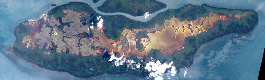 Landsat image of Saibai, Torres Strait Islands, Queensland, Australia mosaic of source given and image to the east 33 percent contrast enanced